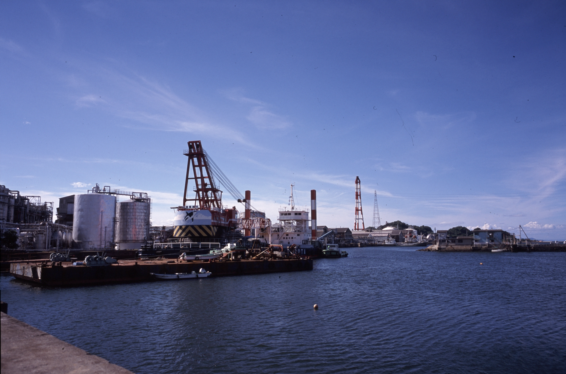 Niihama Port in Niihama, Ehime pref., Japan.